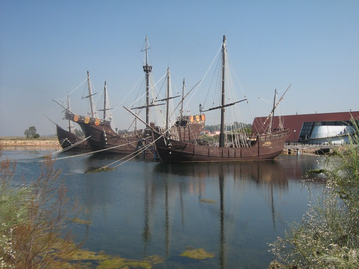 Cristopher Columbus: The Pinta, Niña and Santa Maria. Docked in the "Muelle de Carabelas" in Palos de la Frontera, Huelva.